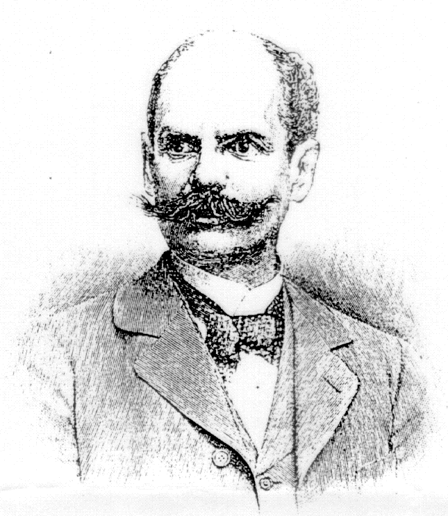 portrait of Eugen Brandeis, 1905 German administrator of Mili Atoll, Marshall Islands, Pacific Ocean